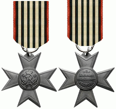 The Prussian Merit Cross for War Aid (Verdienstkreuz für Kriegshilfe)